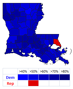 LA 1998 Senate Election by Parish